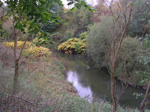 Wince Brook, Middleton. Looking upstream close to the point where this brook, a tributary of the River Irk, passes under Greengate